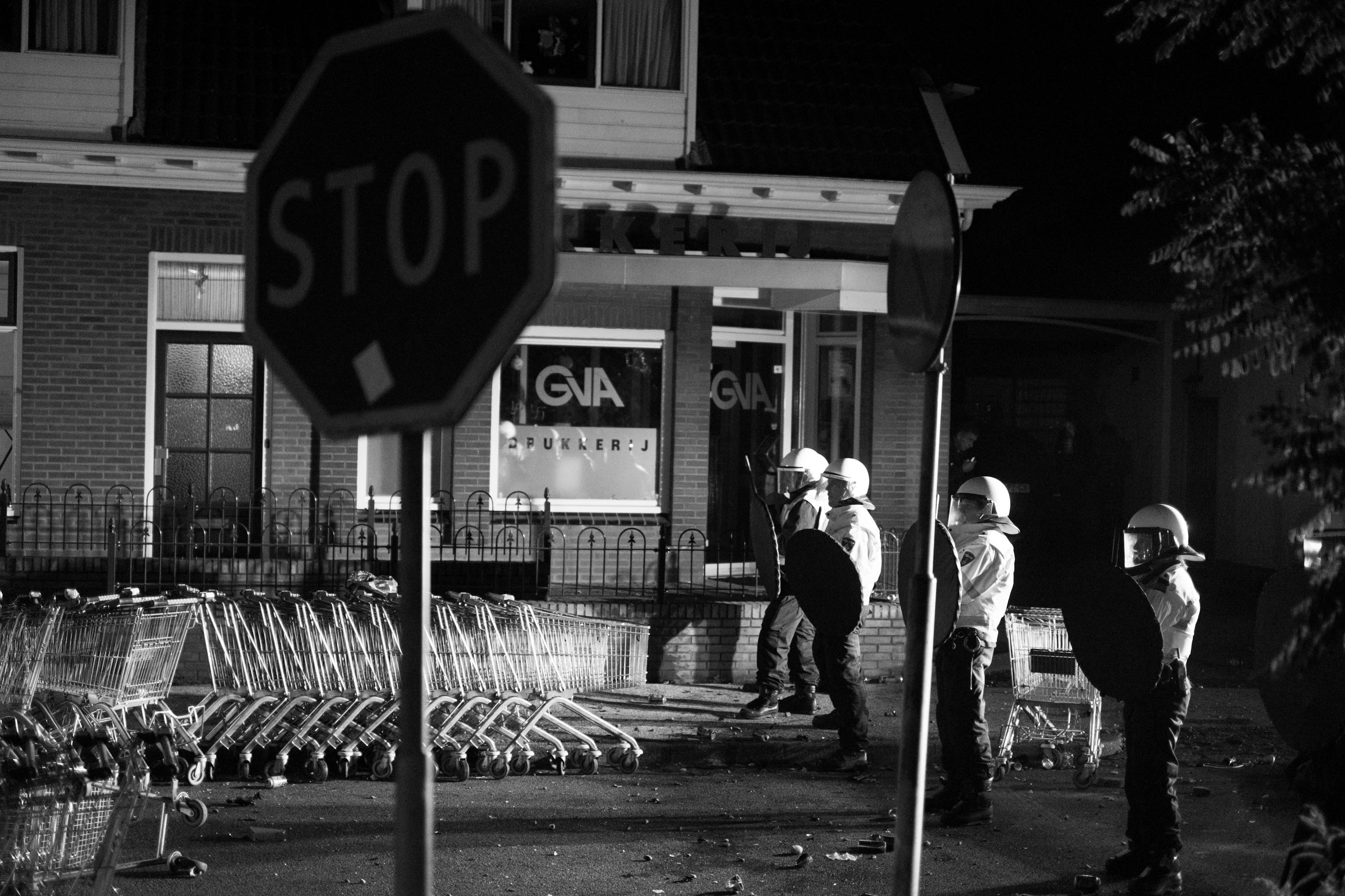 Police forces during the Project X riots in Haren, the Netherlands.